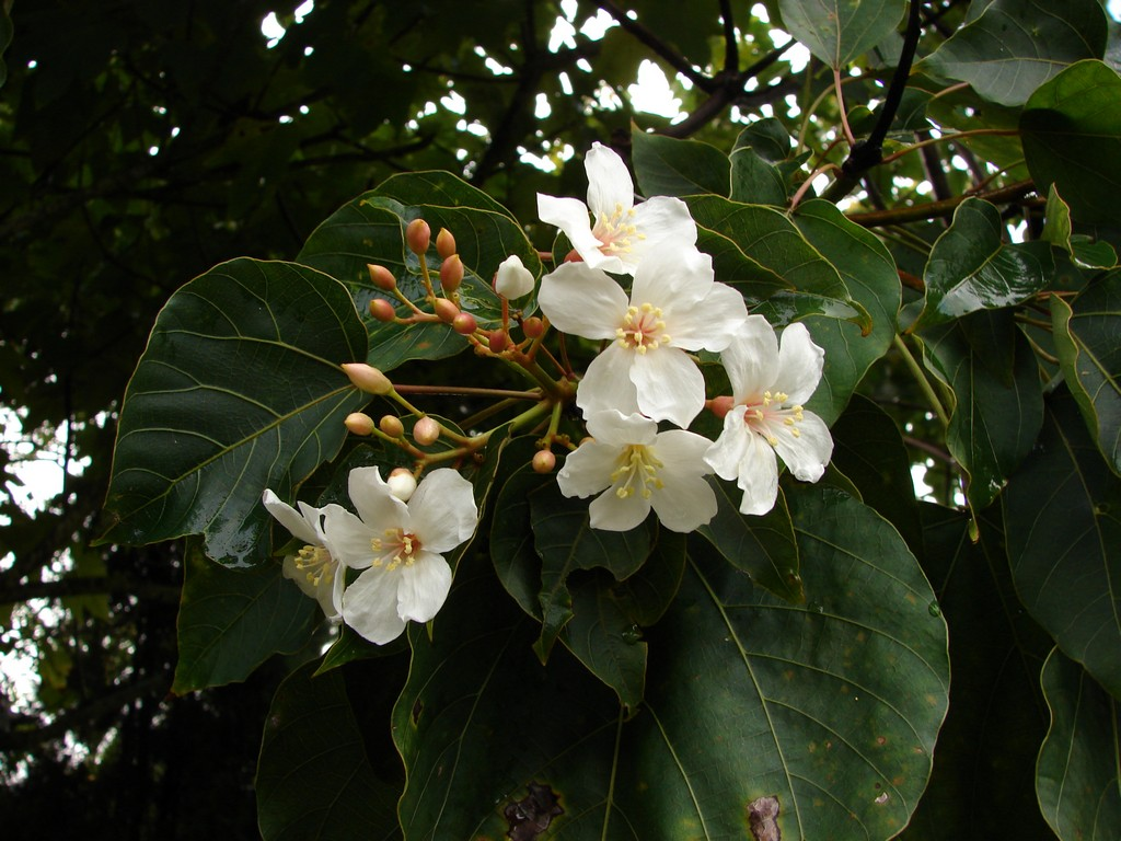 Vernicia montana ; Family: Euphorbiaceae Native to southern China, Burma, and Vietnam. It is very interesting tree with a long history of people using Tung oil, the same as Candlenut tree Aleurites. It actually has a synonym Aleurites montanus I've never seen this tree before and I was thrilled to find it as a street tree in Tamborine (QLD, Australia). It is monoecious (??????????) with individual flowers either male or female, but produced together in the inflorescences. Find more features and info about this tree (my photos) See where this picture was taken - on the map.